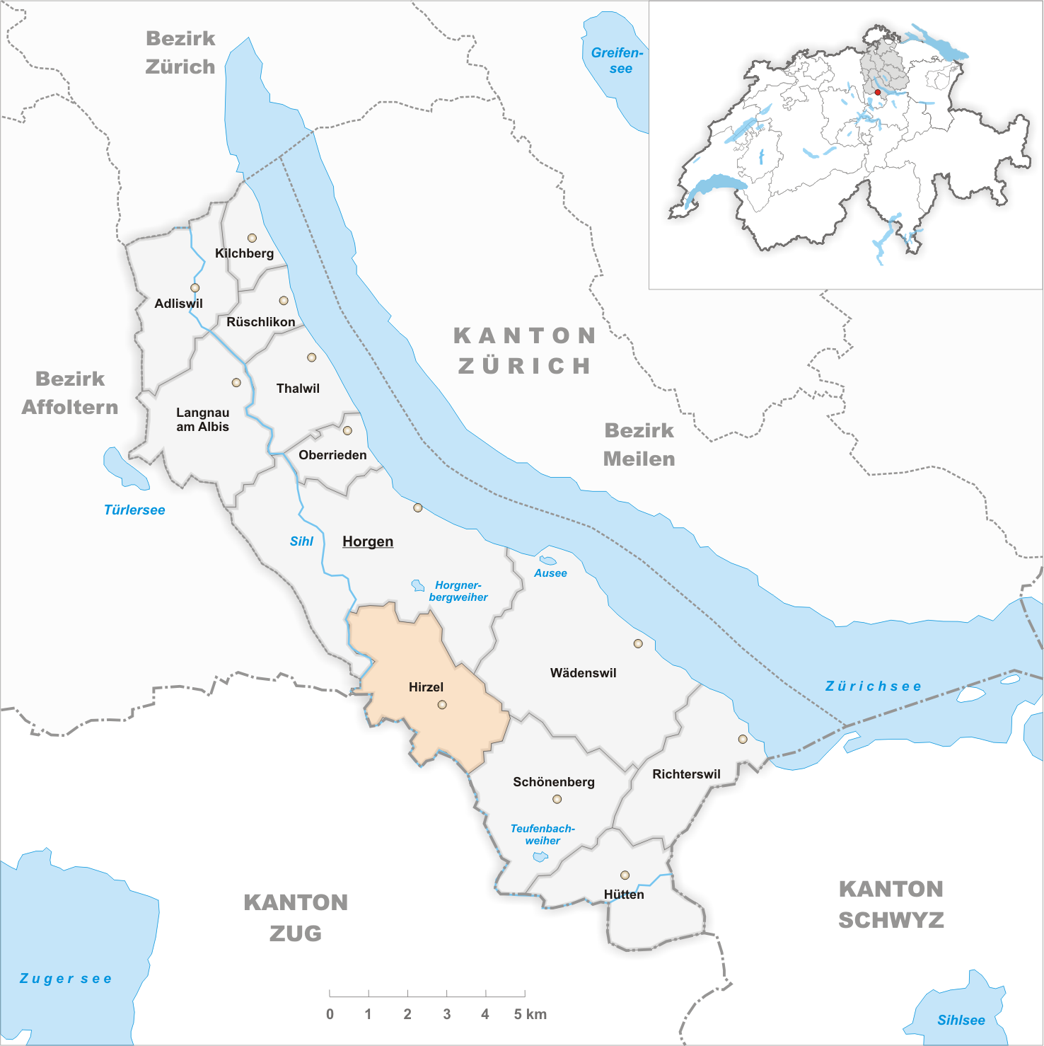 Municipality Hirzel